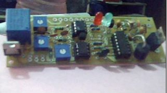 solar charge controller for use to charge battery and save battery life for long time